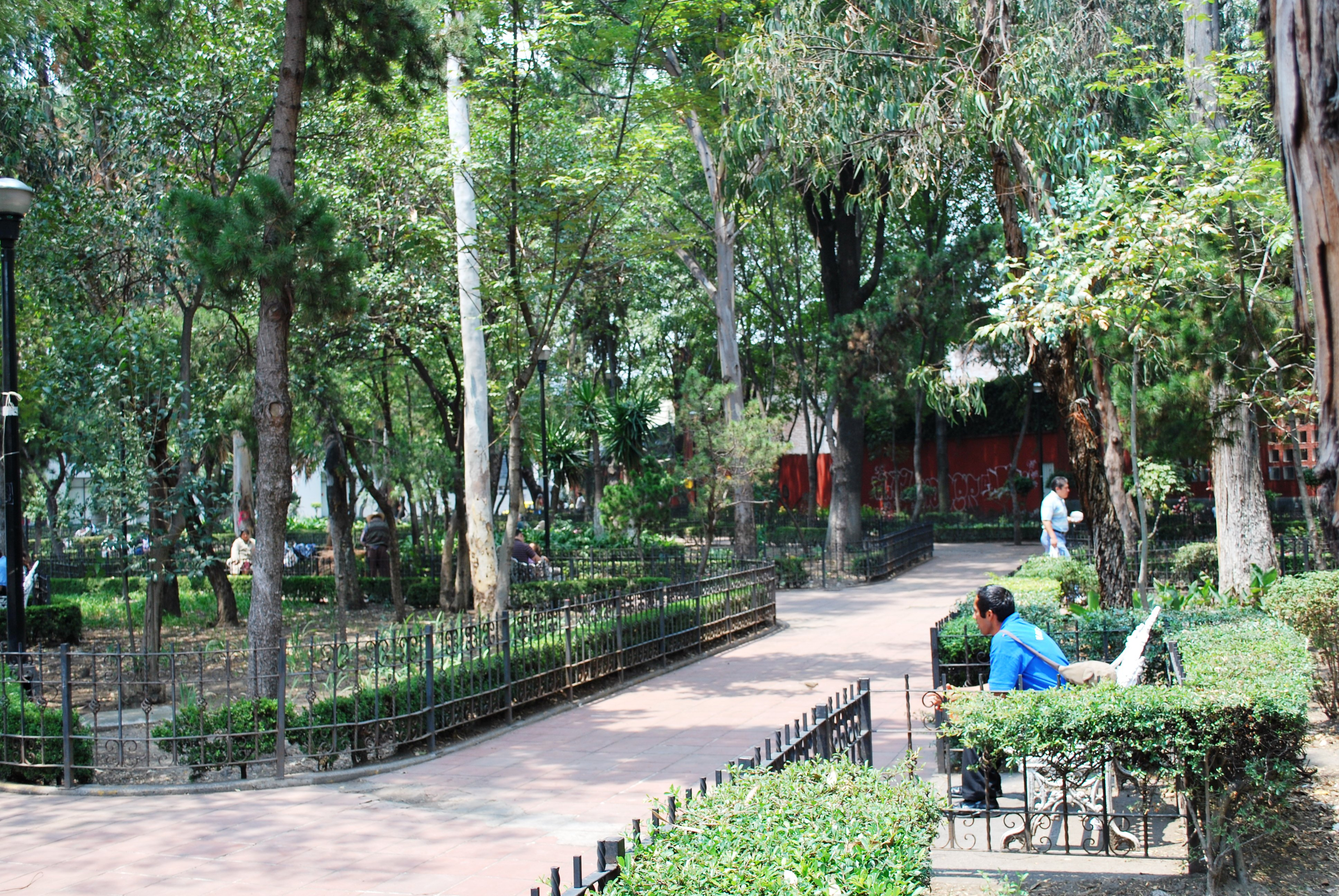 Allende Park, a small park located on Allende Street in the Coyoacan borough of Mexico City.